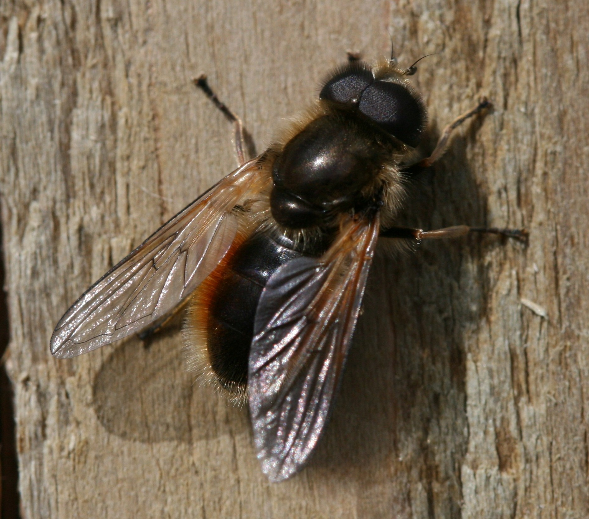 Cheilosia grossa (male) - a species of hoverfly